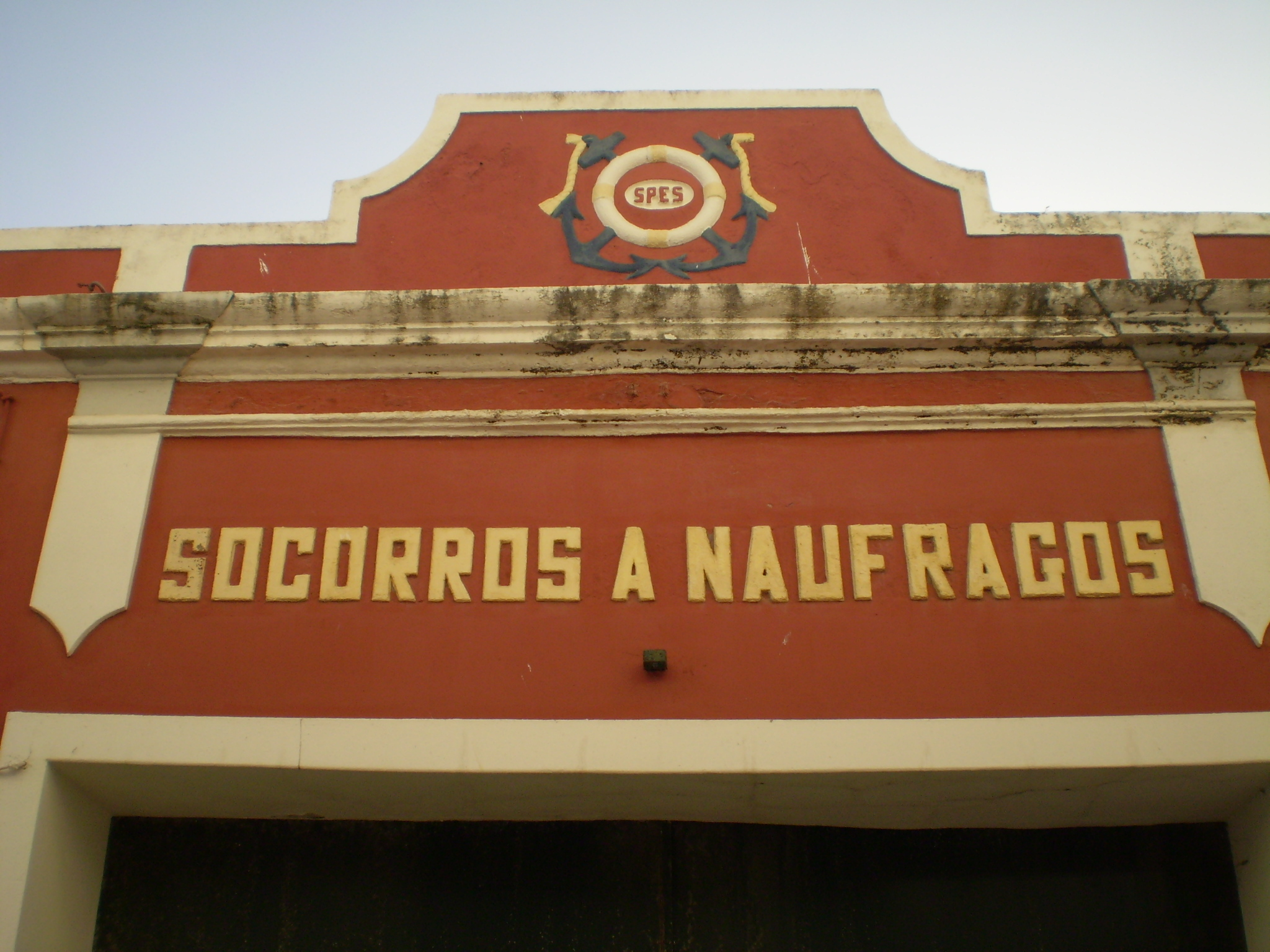 Front of the Socorros a Náufragos building, in Barroca St., Lagos, Portugal